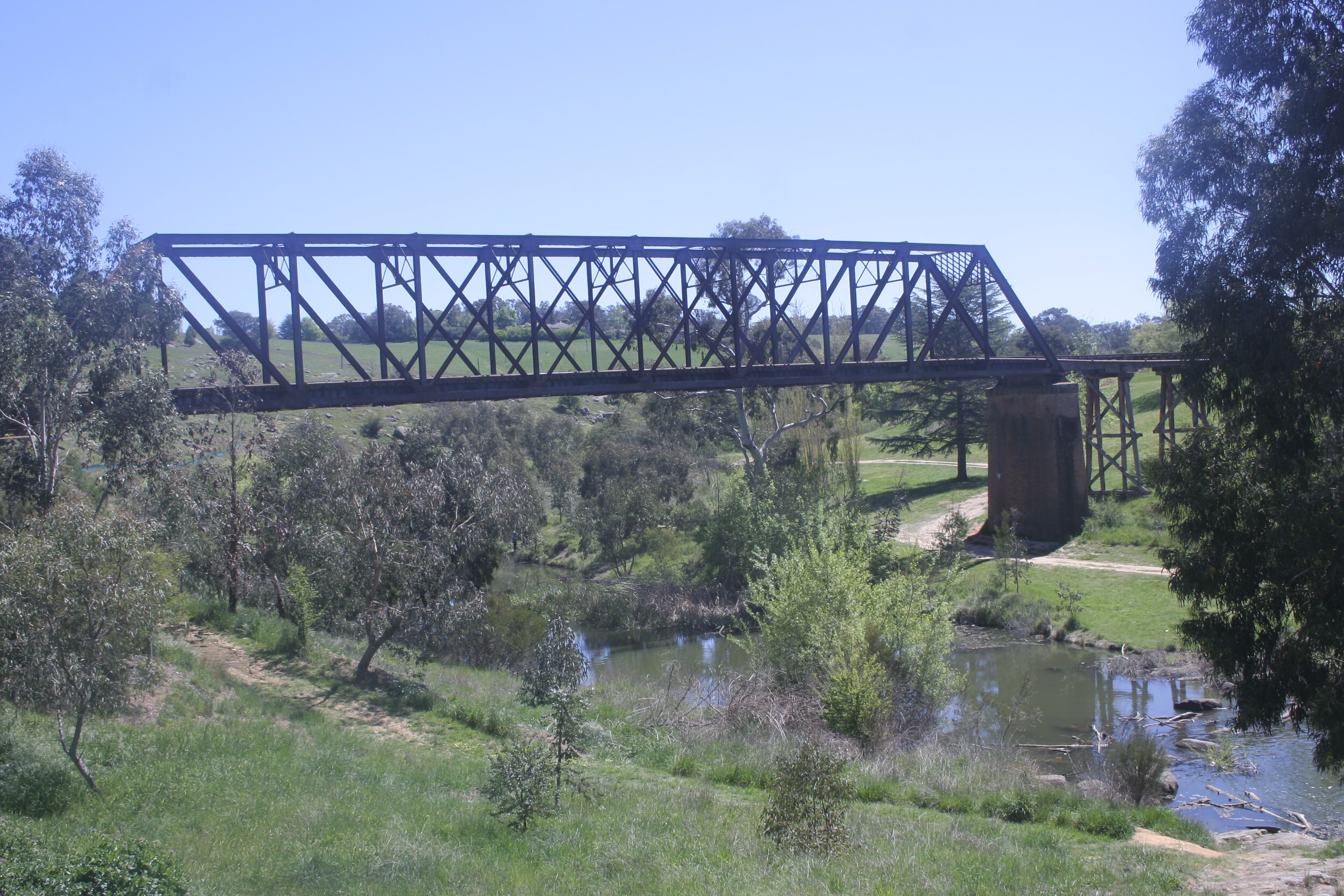 Yass_River_rail_bridge